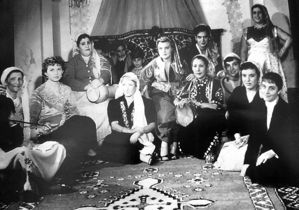 Troop from Algiers with Naima Dziriya (top right)